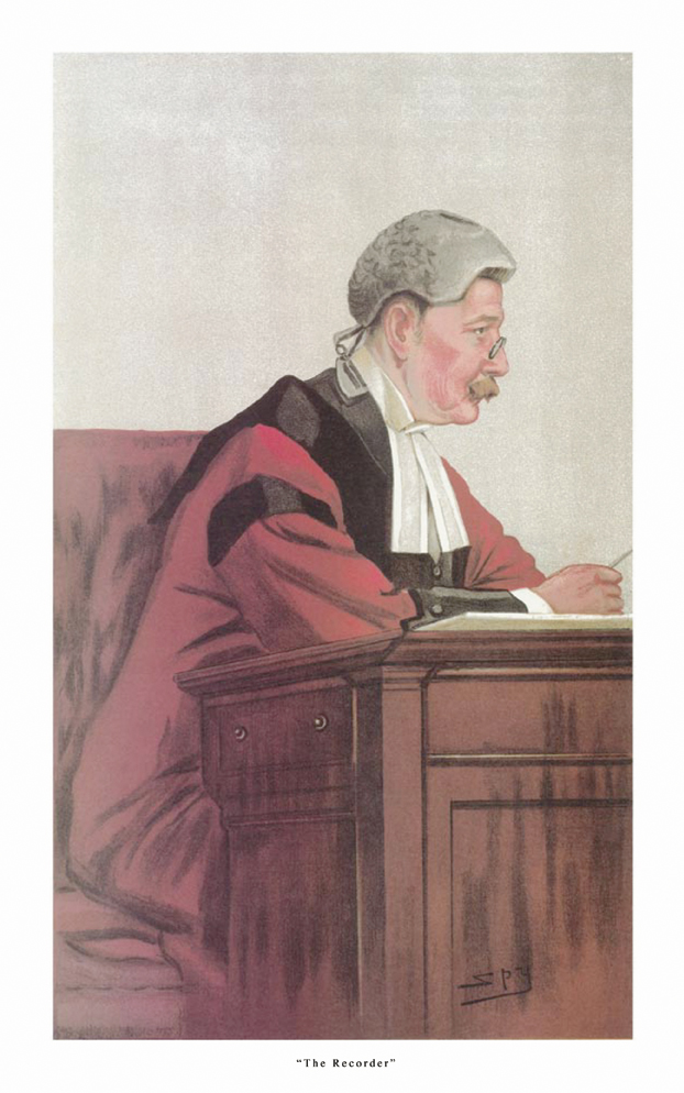 Caricature of Sir Forrest Fulton (1846-1925). Caption read "The Recorder".